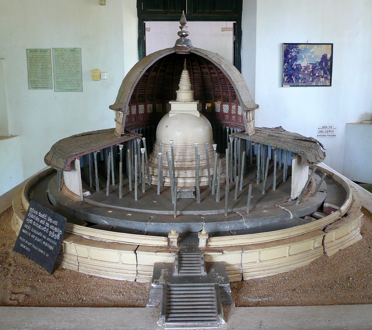 Vatagage of the Thuparama in Anuradhapura, Sri Lanka. Nowadays only the stupa ramains. The Vatadage structure is reconstructed in this model in the main museum of Anuradhapura.